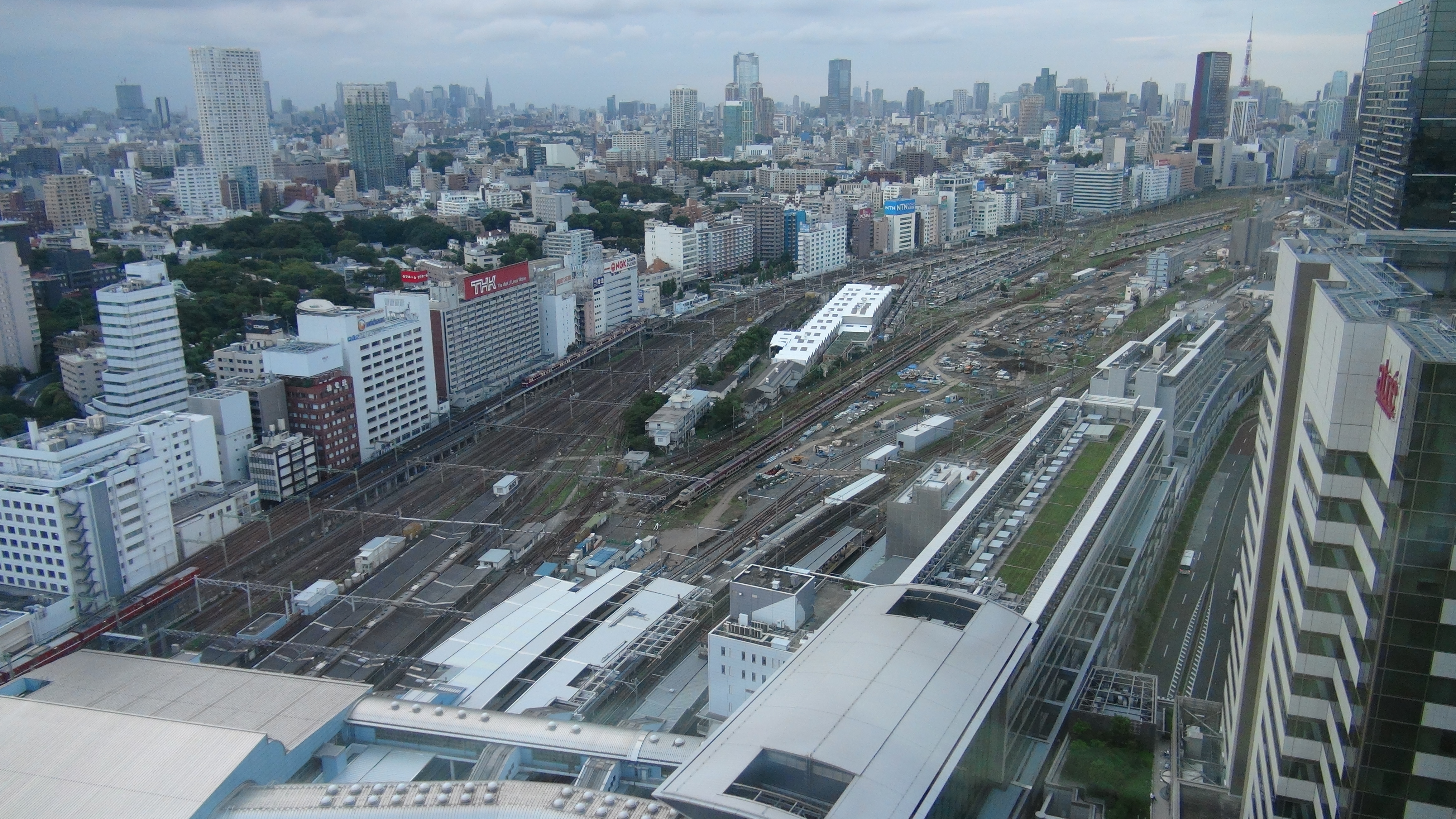 Tamachi Rolling Stock Center seen from the south